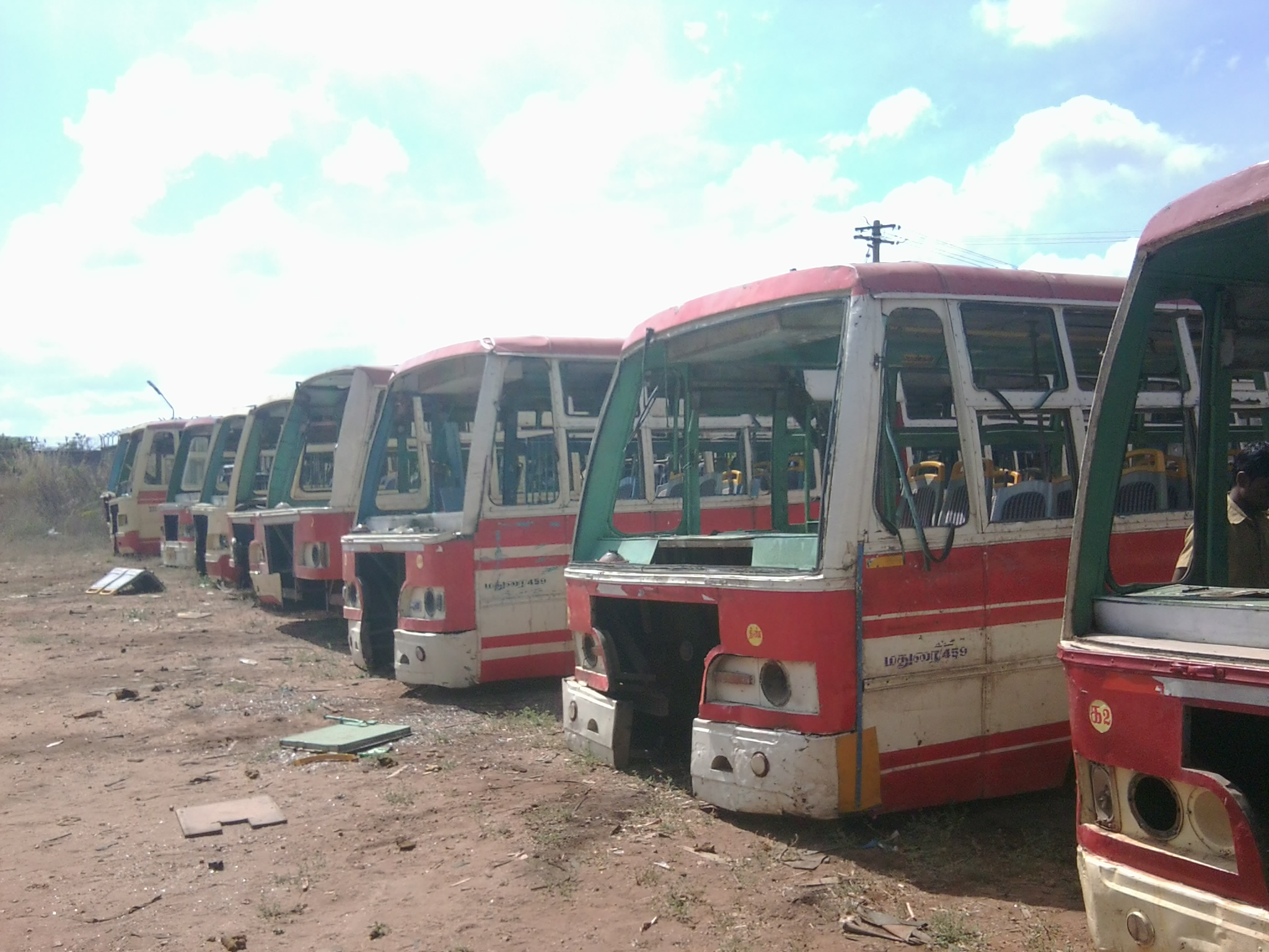 Bus Bodies to be fitted into Public Transportation Buses in state owned TNSTC workshop near Madurai, Tamil Nadu, India.